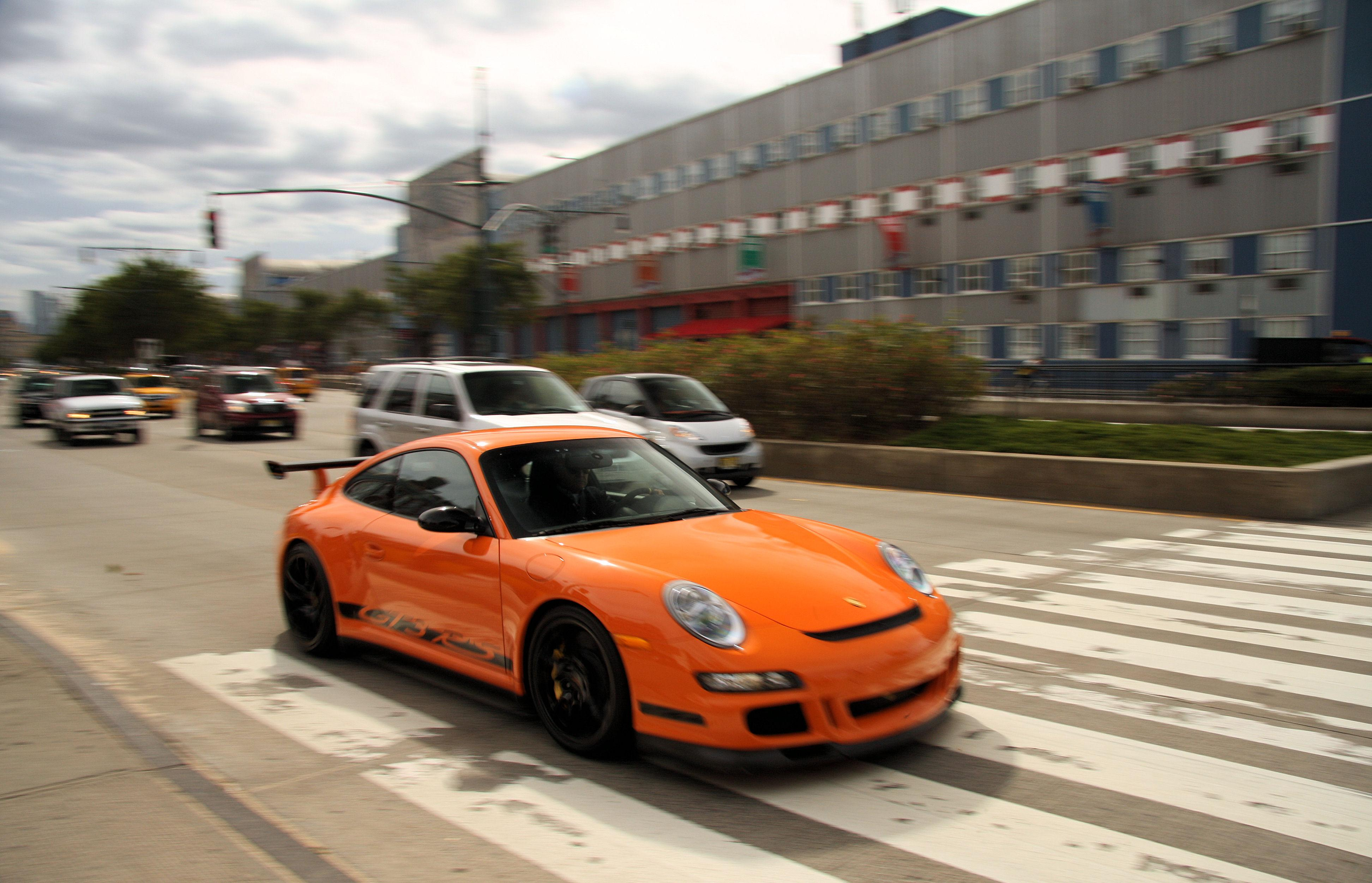 Porsche 997 GT3 RS